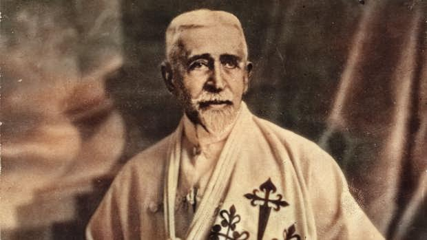 Alfonso Carlos de Borbón